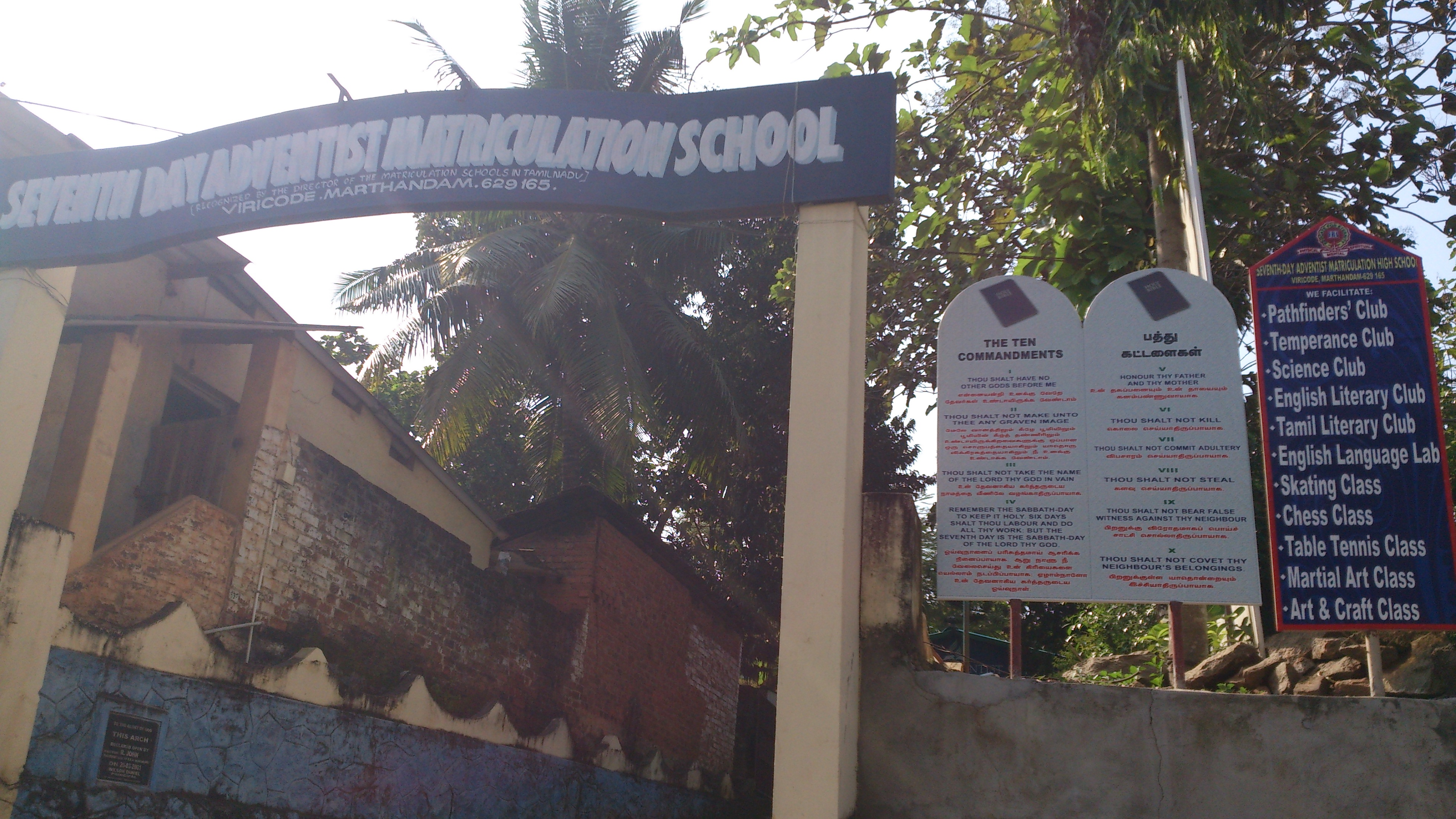 The Ten Commandments Displayed in a Protestant Christianity run School in Southern Corner of India